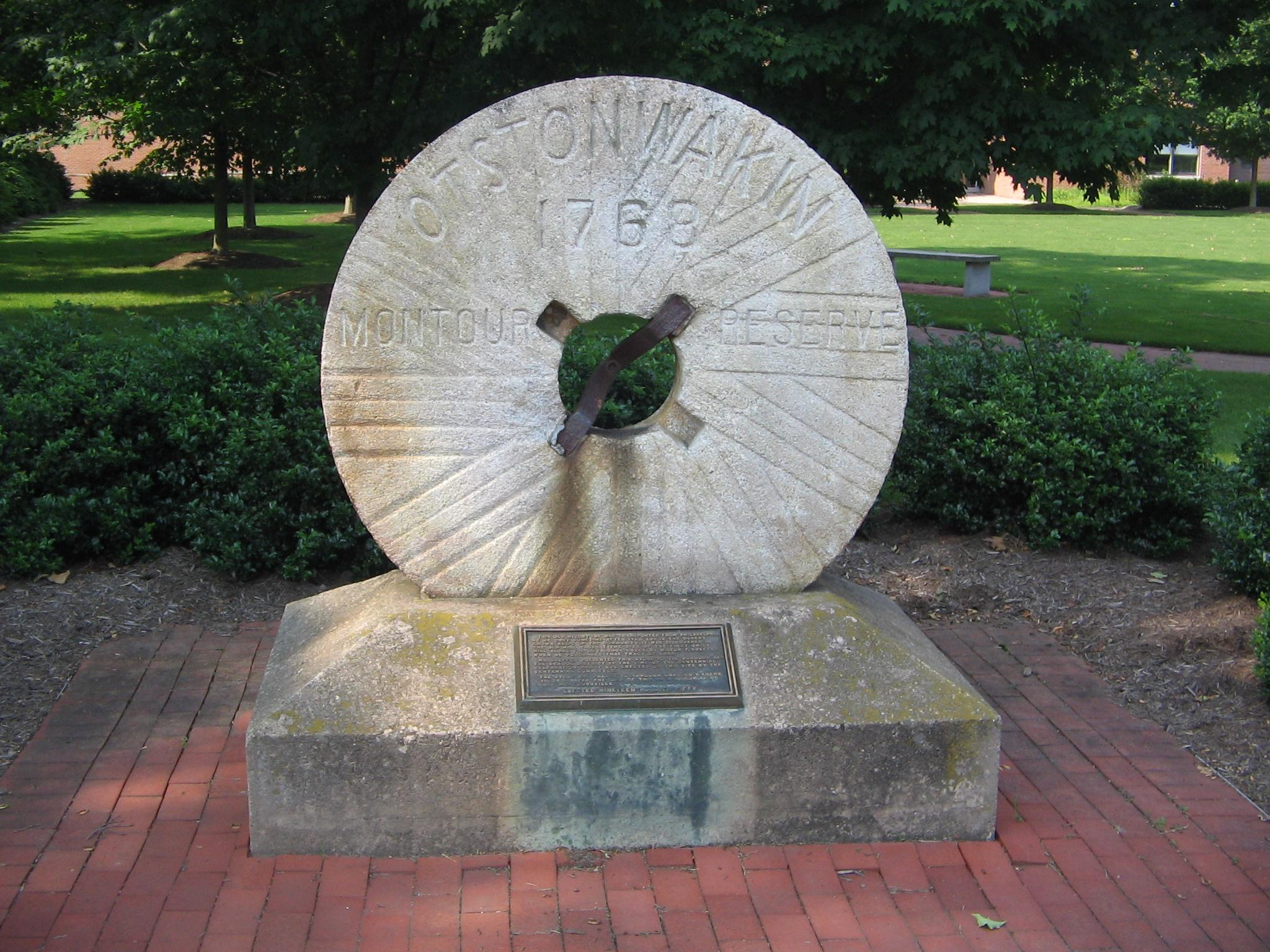 Millstone from earliest setllements (engraved Otstonwakin, 1768, Montour Preserve), located in Montoursville, Pennsylvania, USA